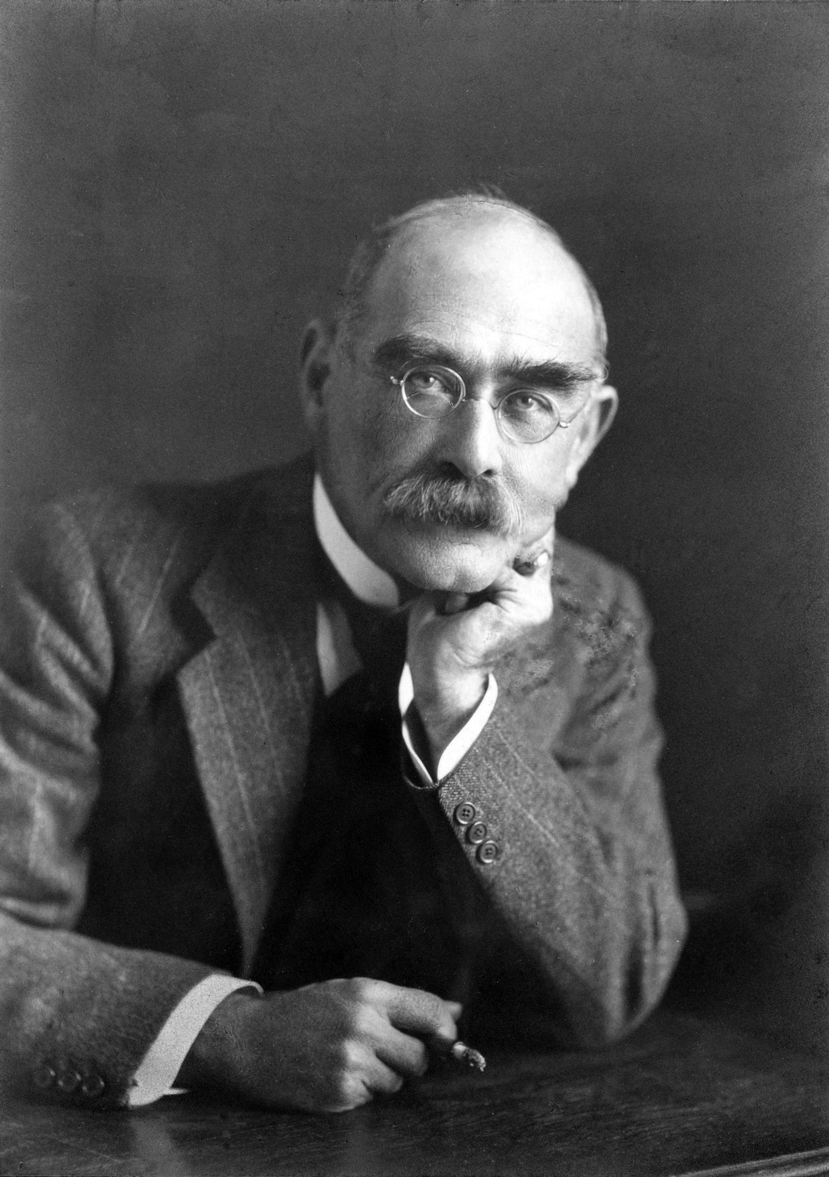 Rudyard Kipling (1865-1936) with cropped frame. silver print 19 x 14 cm signed: Rudyard Kipling signed: Elliott & Fry